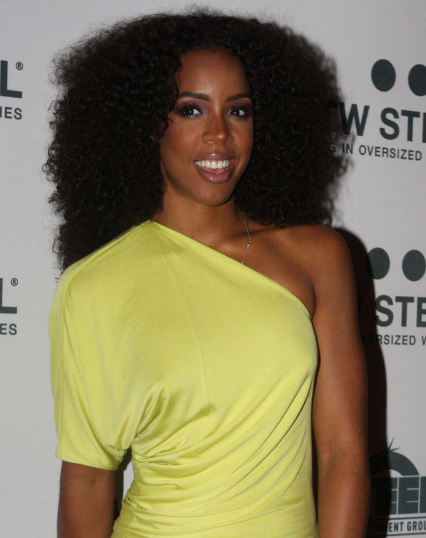 Kelly Rowland Hosts TW Steel Events At Ivy Penthouse; Sydney, Australia 2012.